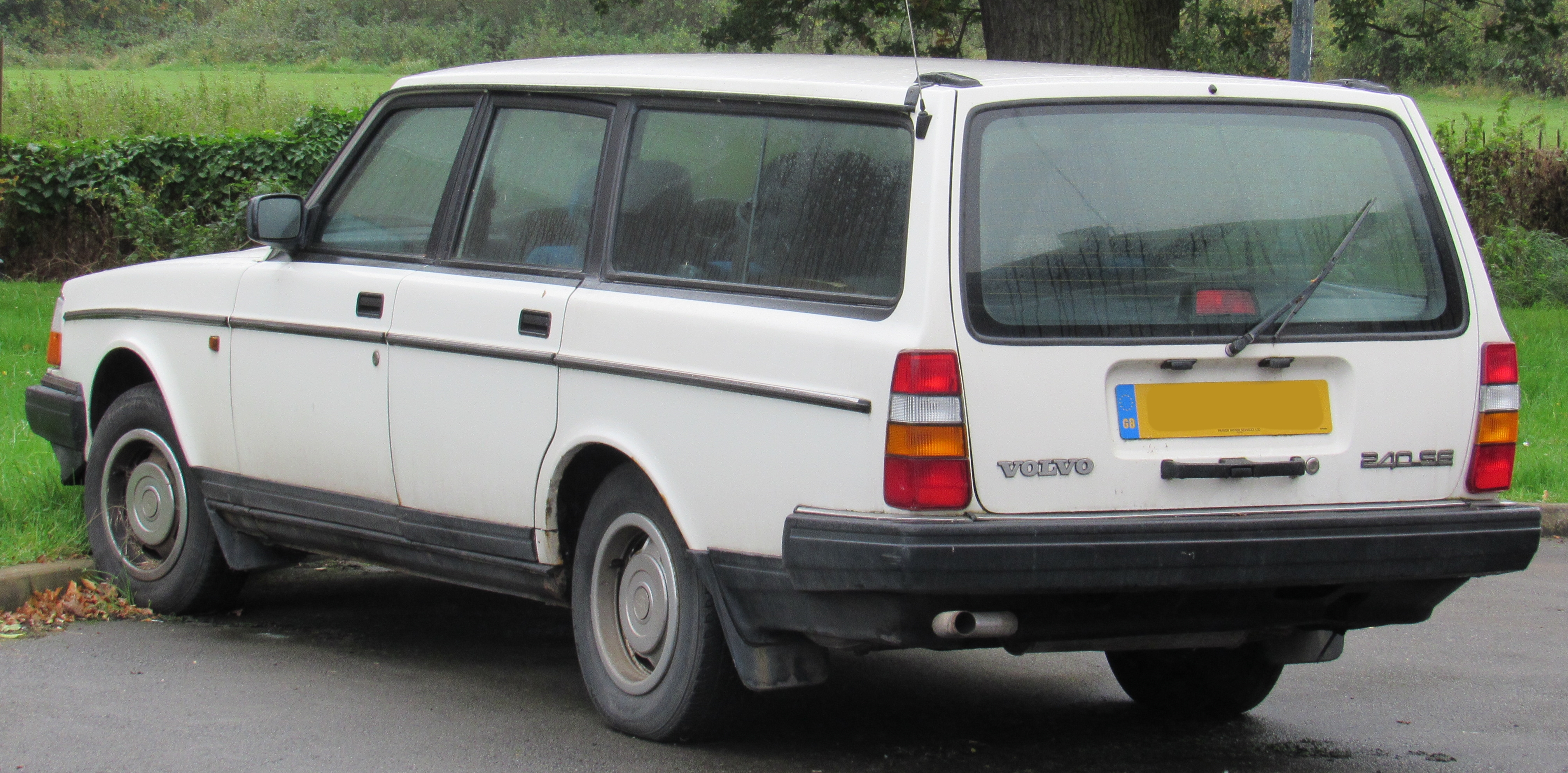 1993 Volvo 240 SE 2.0 Taken in Leamington Spa